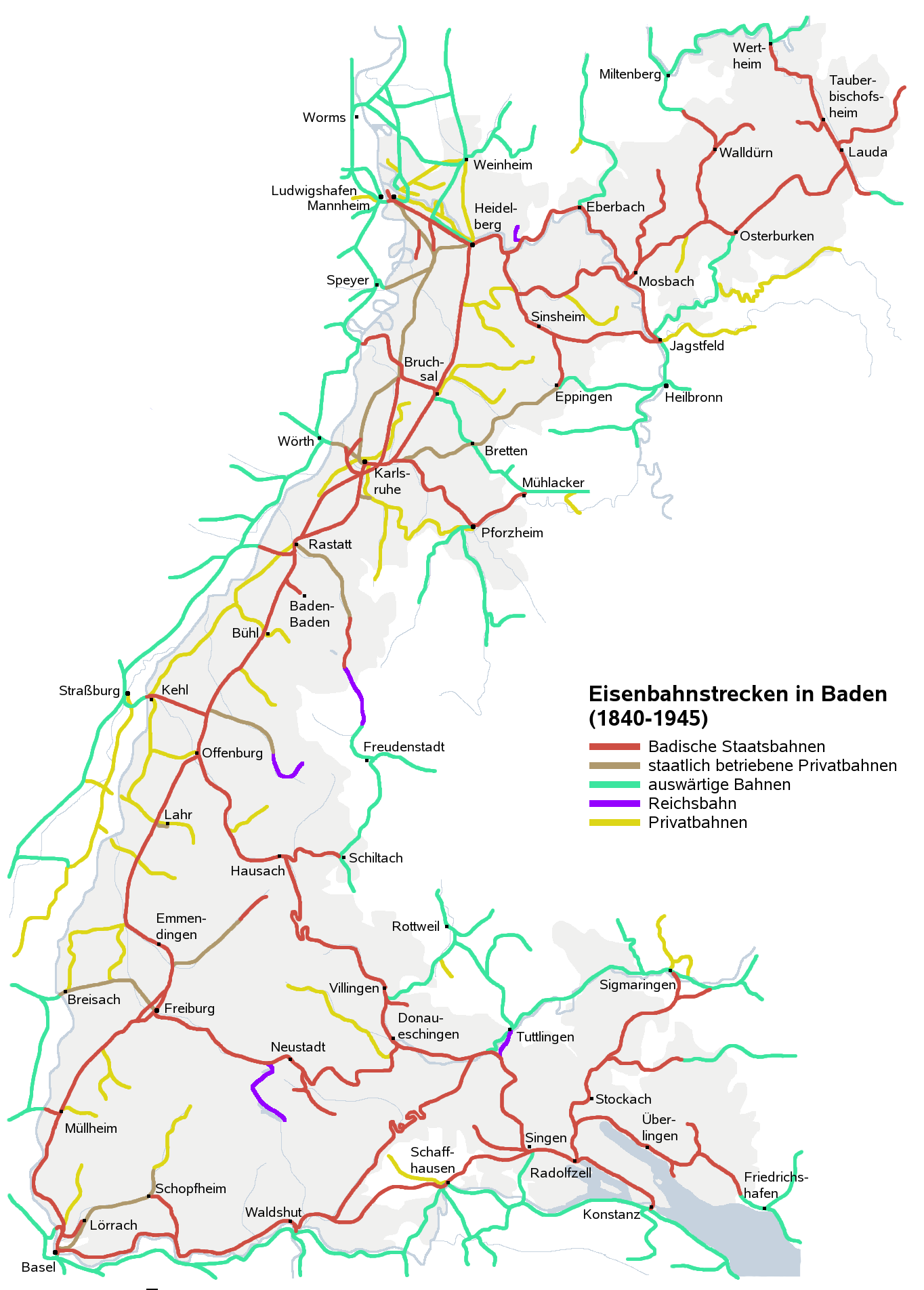 Map of railway lines in Baden (Germany) 1840-1945